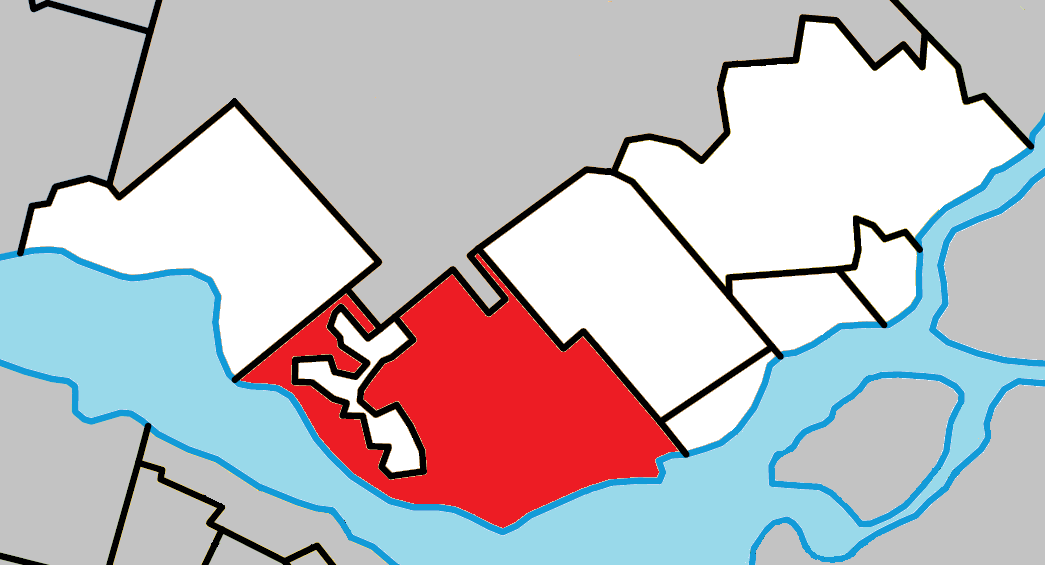 Location of Oka, Quebec within Deux-Montagnes Regional County Municipality.